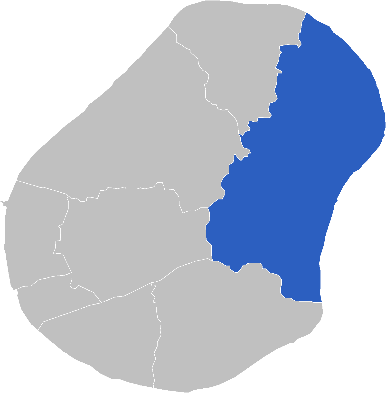 Location map of Anabar constituency, Nauru